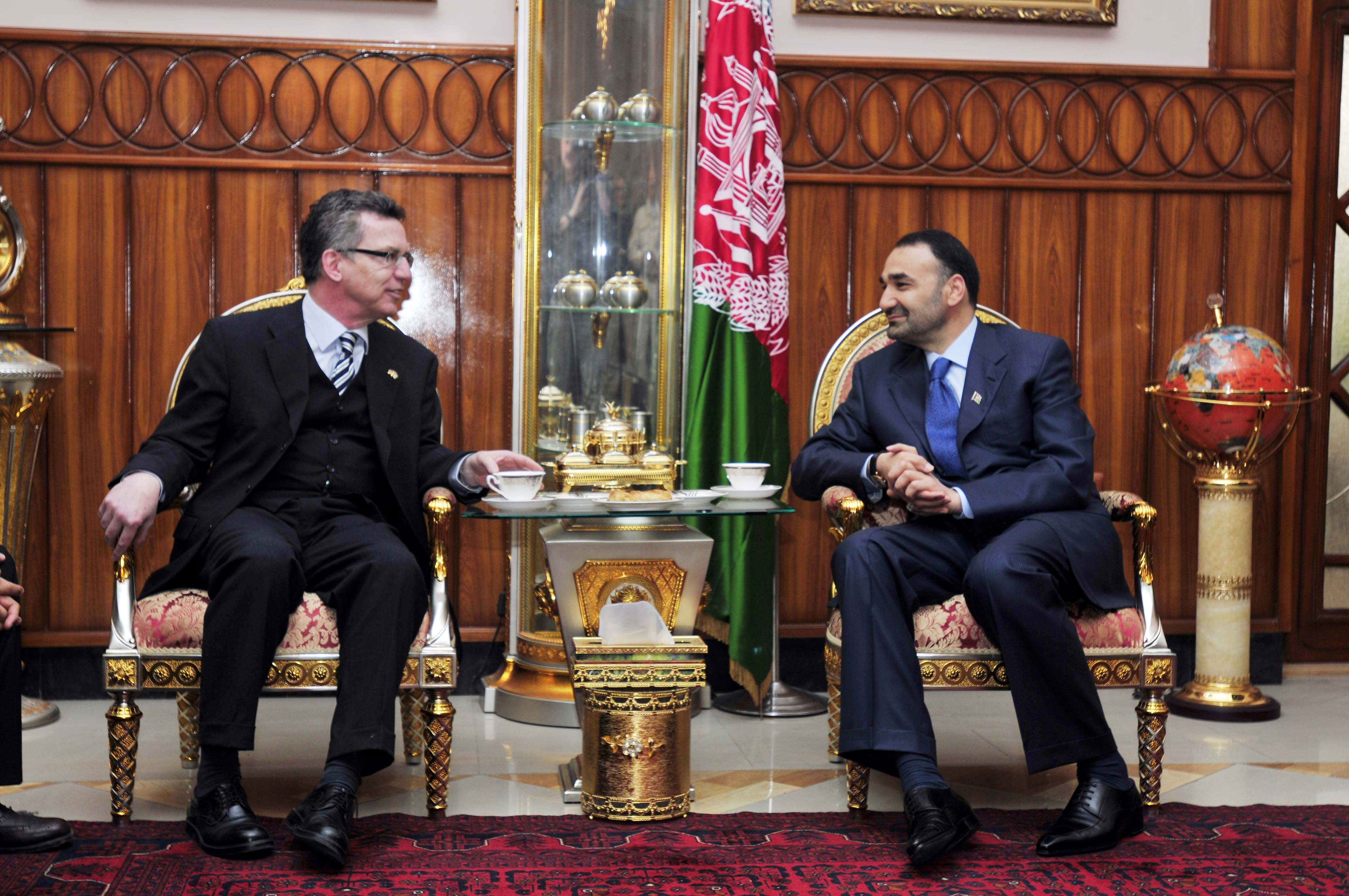 Thomas de Maizière, German Minister of the Interior, visits with Afghan Governor Atta at the Governor’s compound in Mazar-e-Sharif, Afghanistan.